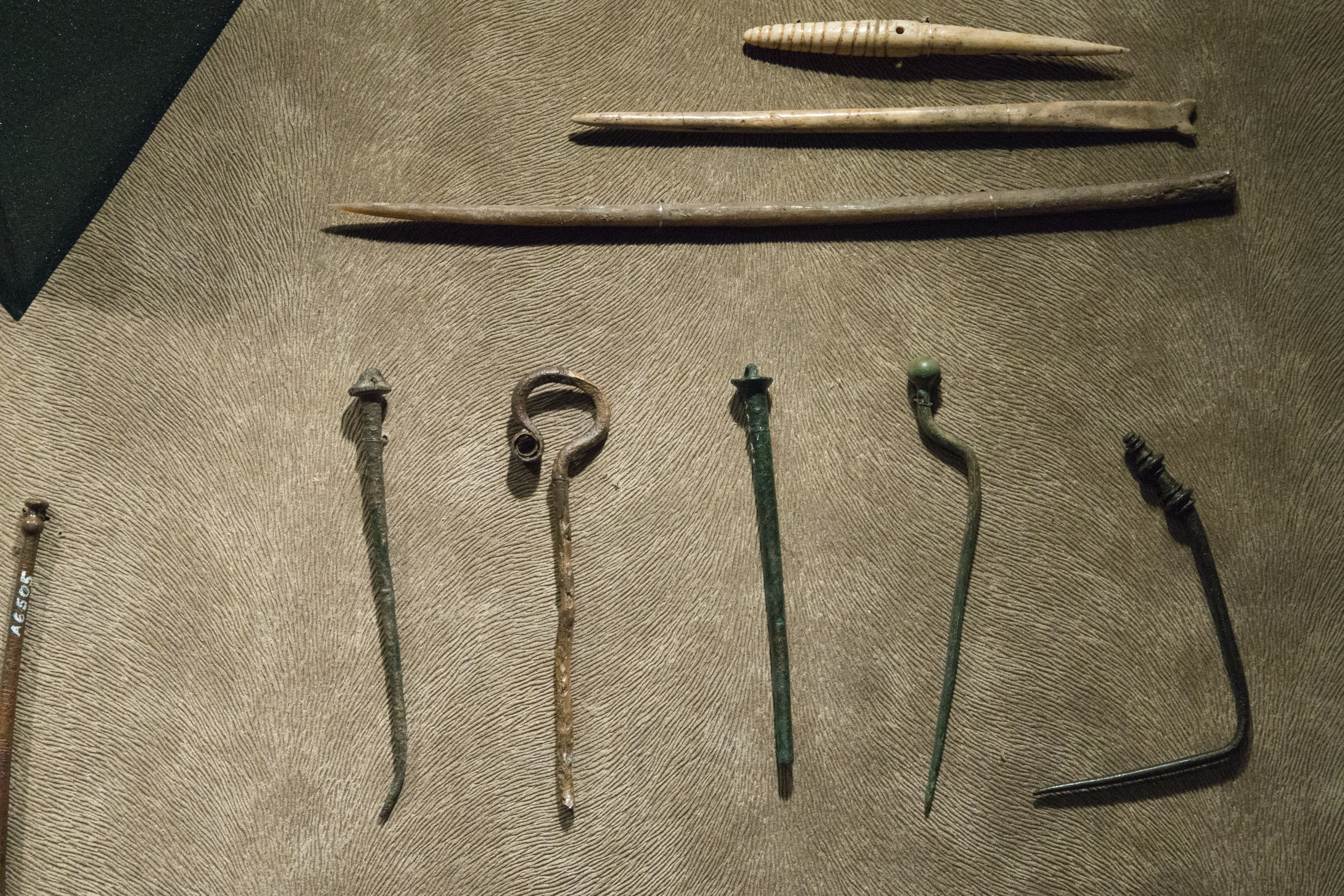 Bone and bronze pins, used to fasten clothing. Bronze Age. The City of Prague Museum.